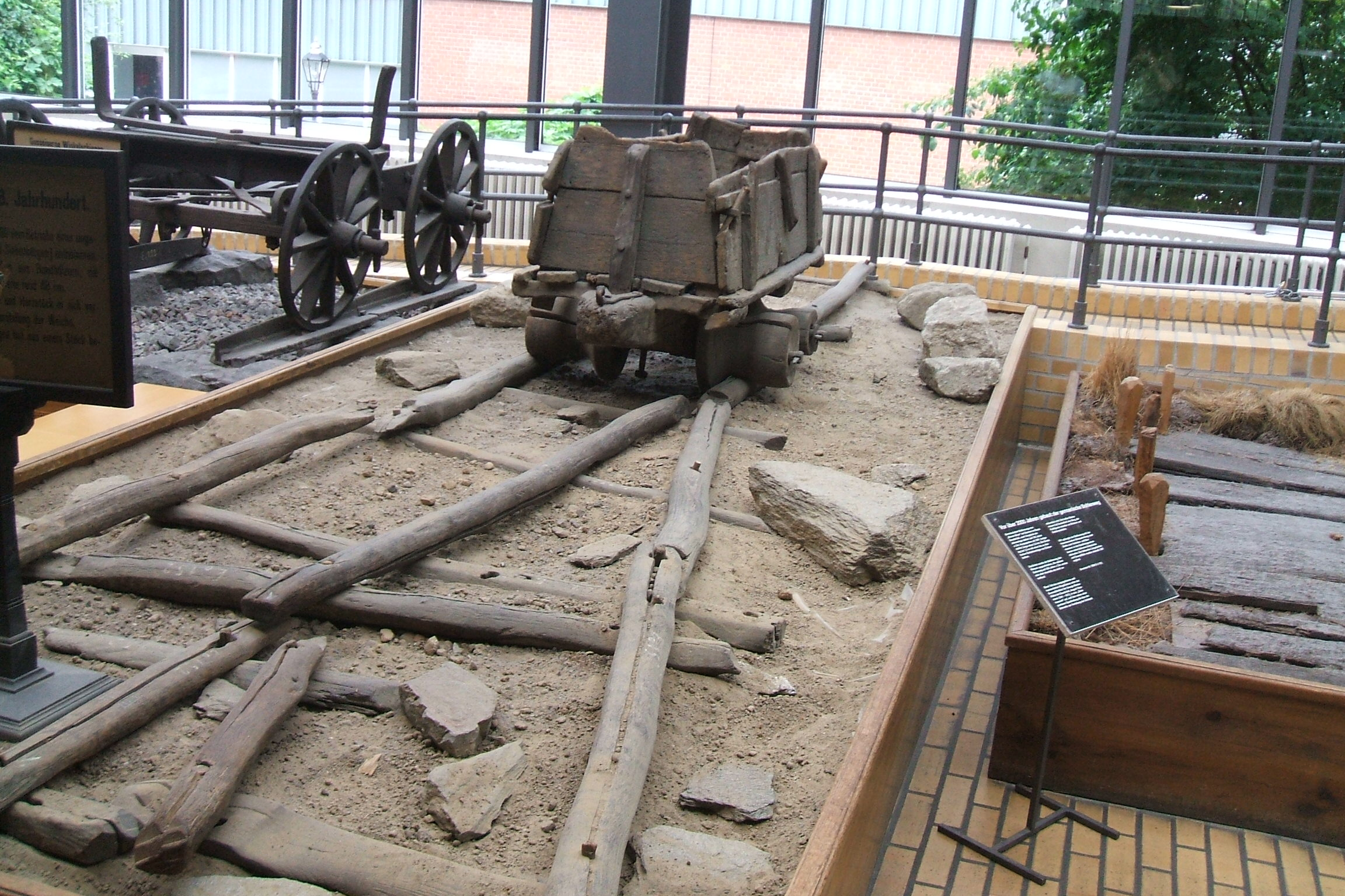 Track section using round timber for rails; Berlin Technical Museum; June 2007